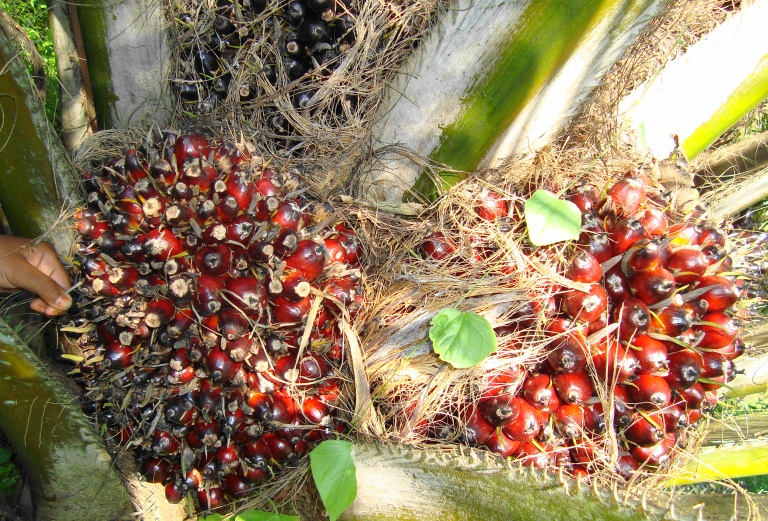 Oil palm fresh fruit bunches are still on the tree.